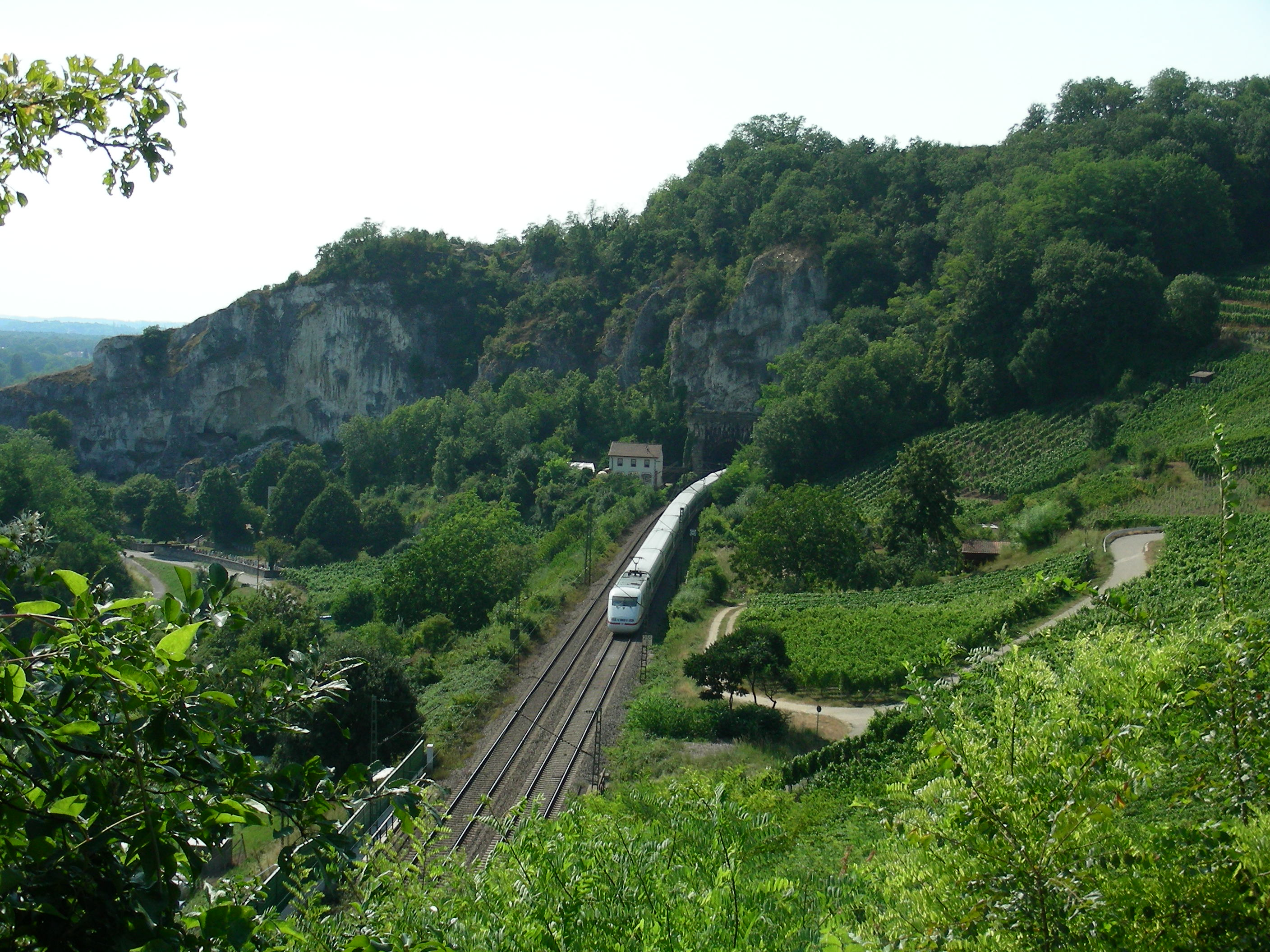 German ICE train in front of "Isteiner Klotz", a rock in south west Germany